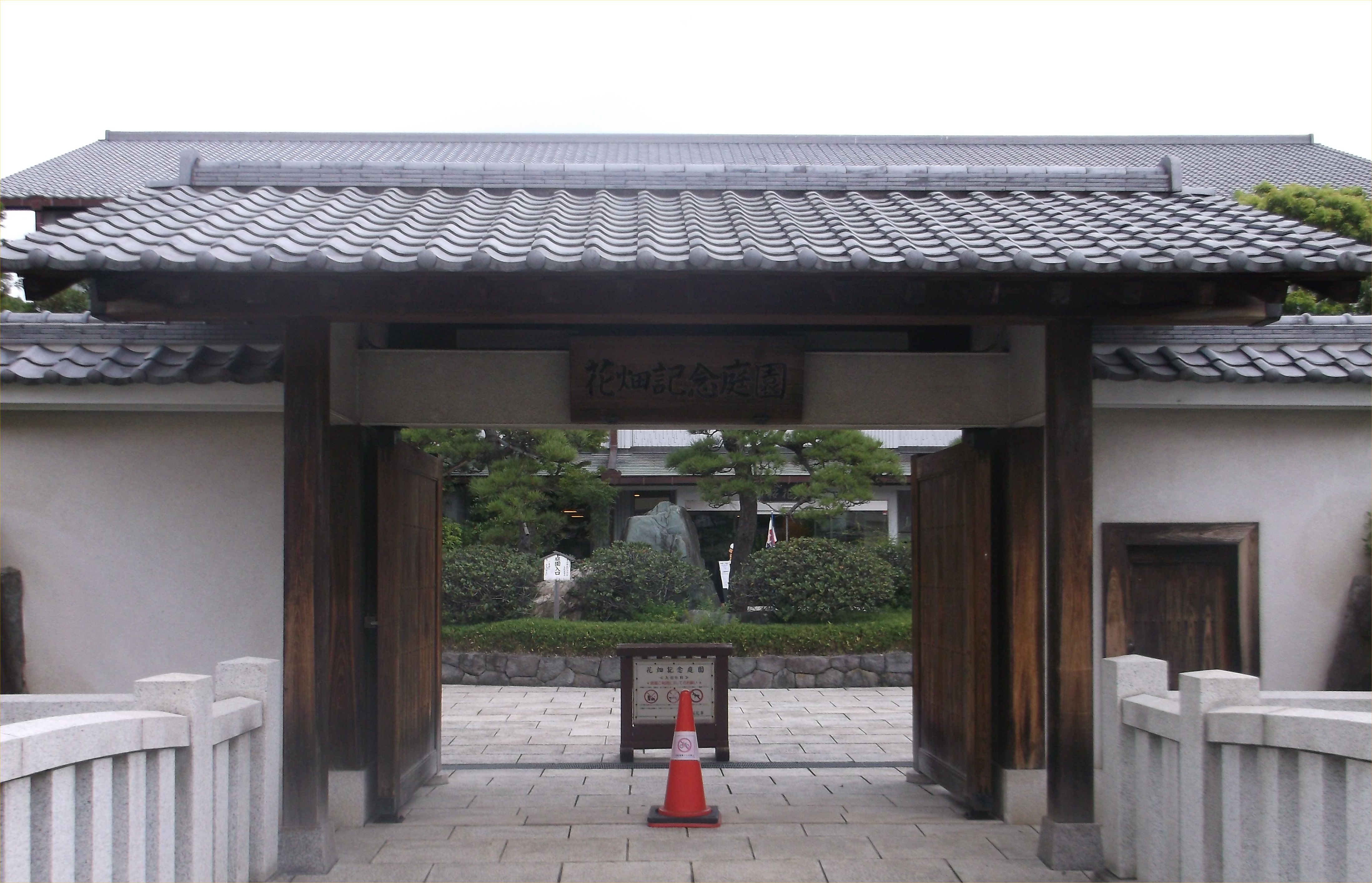 A photo of an entrace of Hanahata Kinen Park,Hanahata,Adachi-ku,Tokyo,Japan.